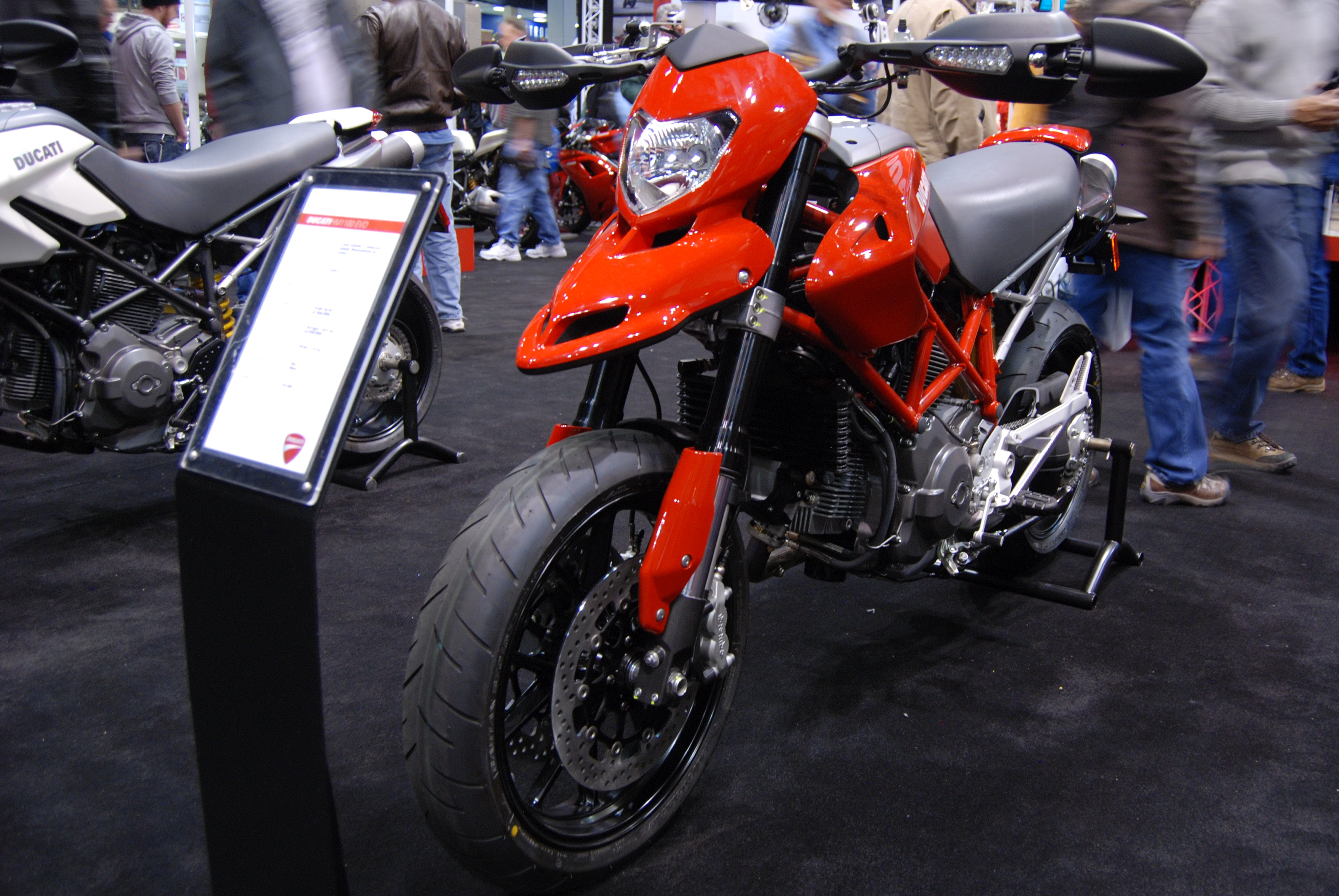 2010 Ducati Hypermotard 796 at the 2009 Seattle International Motorcycle Show